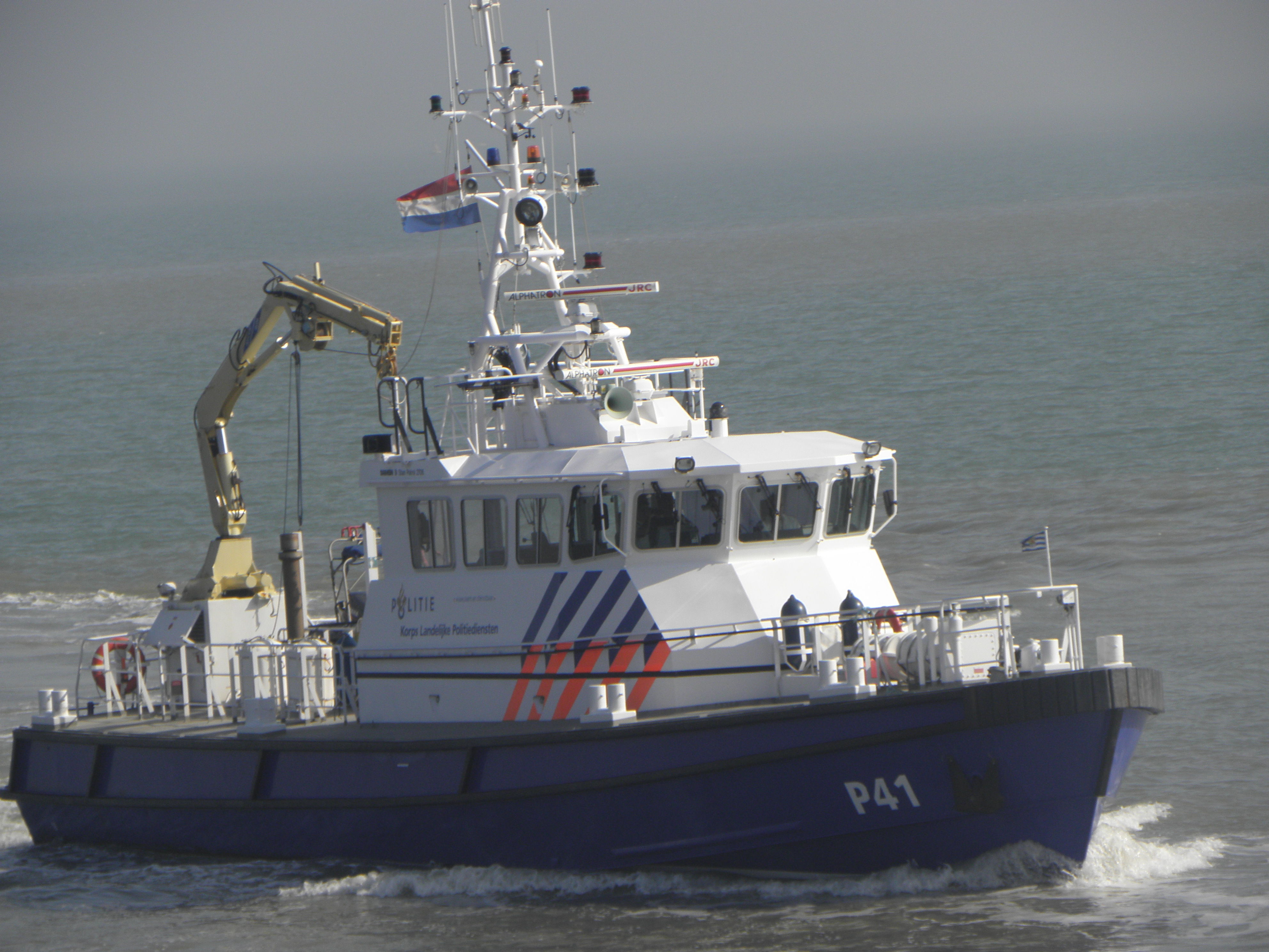 Dutch police boat P41 in Breskens Harbor